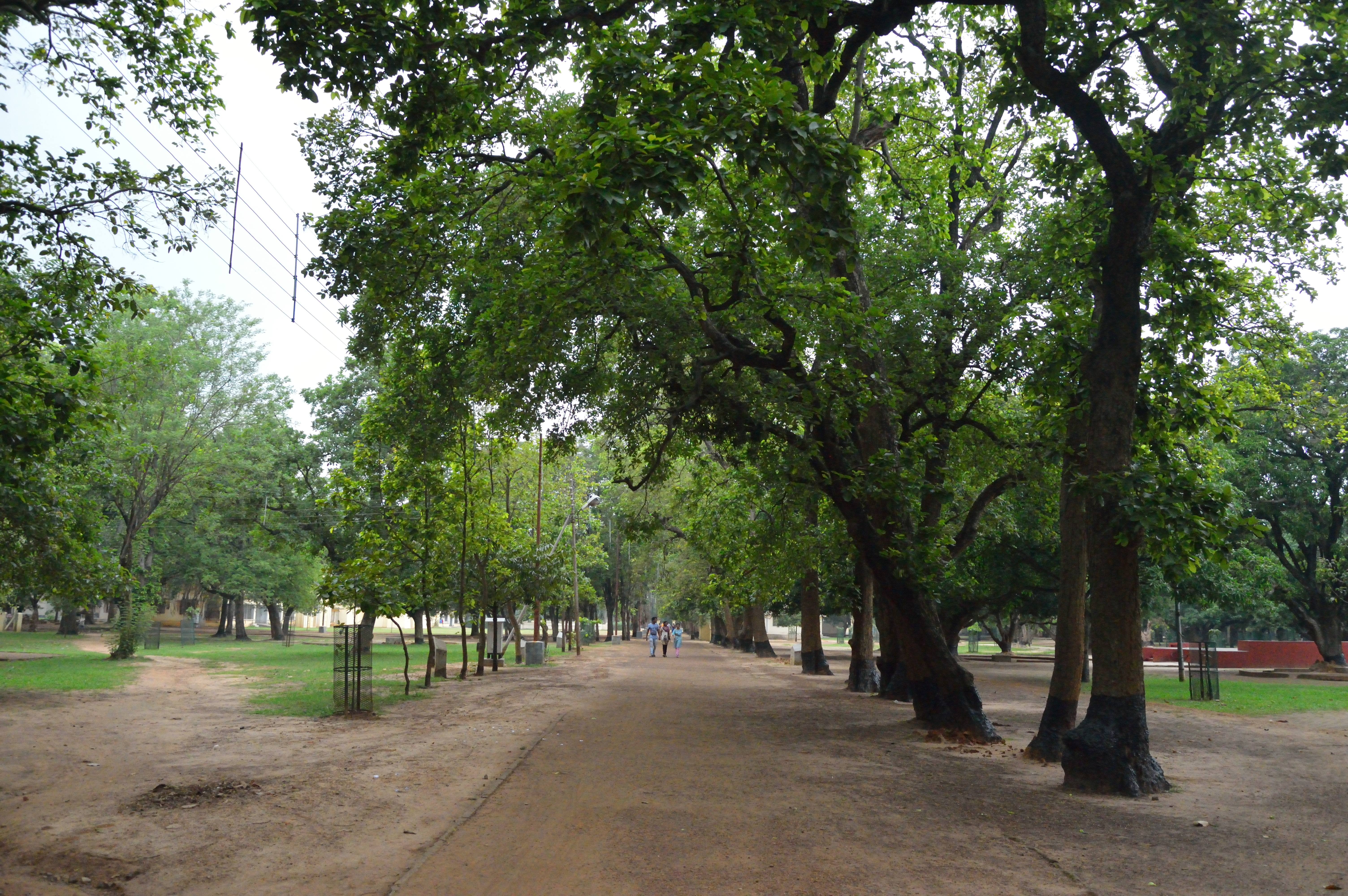 Photographed at The Visva-Bharati University complex, Santiniketan.